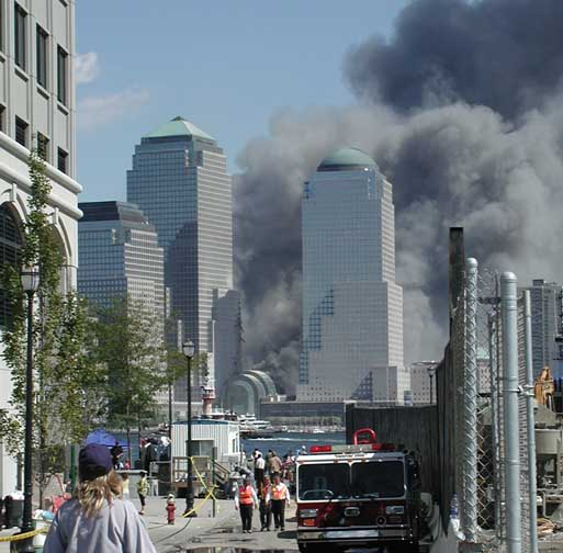 September 11th, 2001 attacks as seen from Jersey City. Many were evacuated via ferry to Jersey City in the wake of the attacks. This photo was taken about 3 hours after the twin towers collapsed.